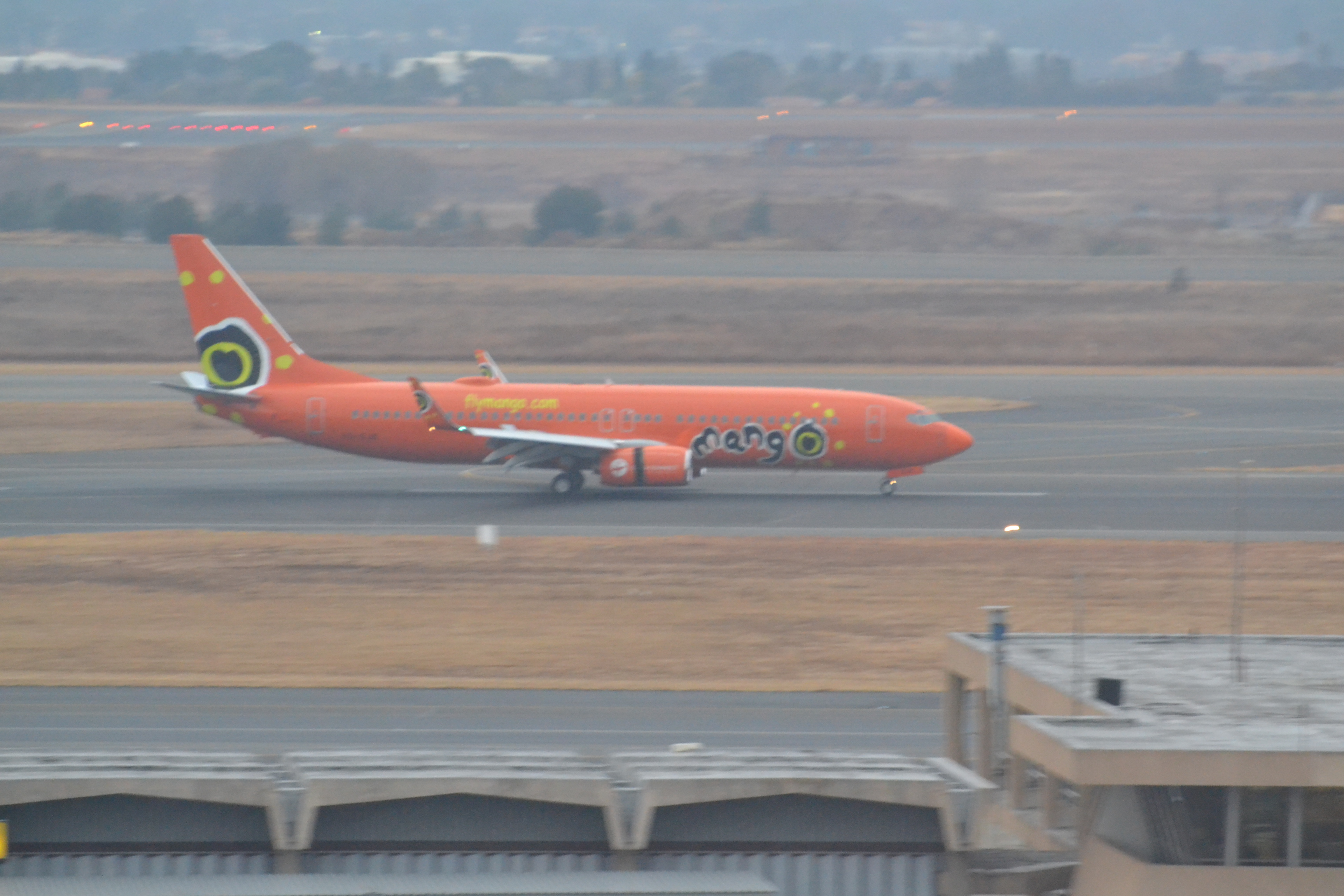 Mango B737 at OR Tambo International Airport in Johannesburg, South Africa